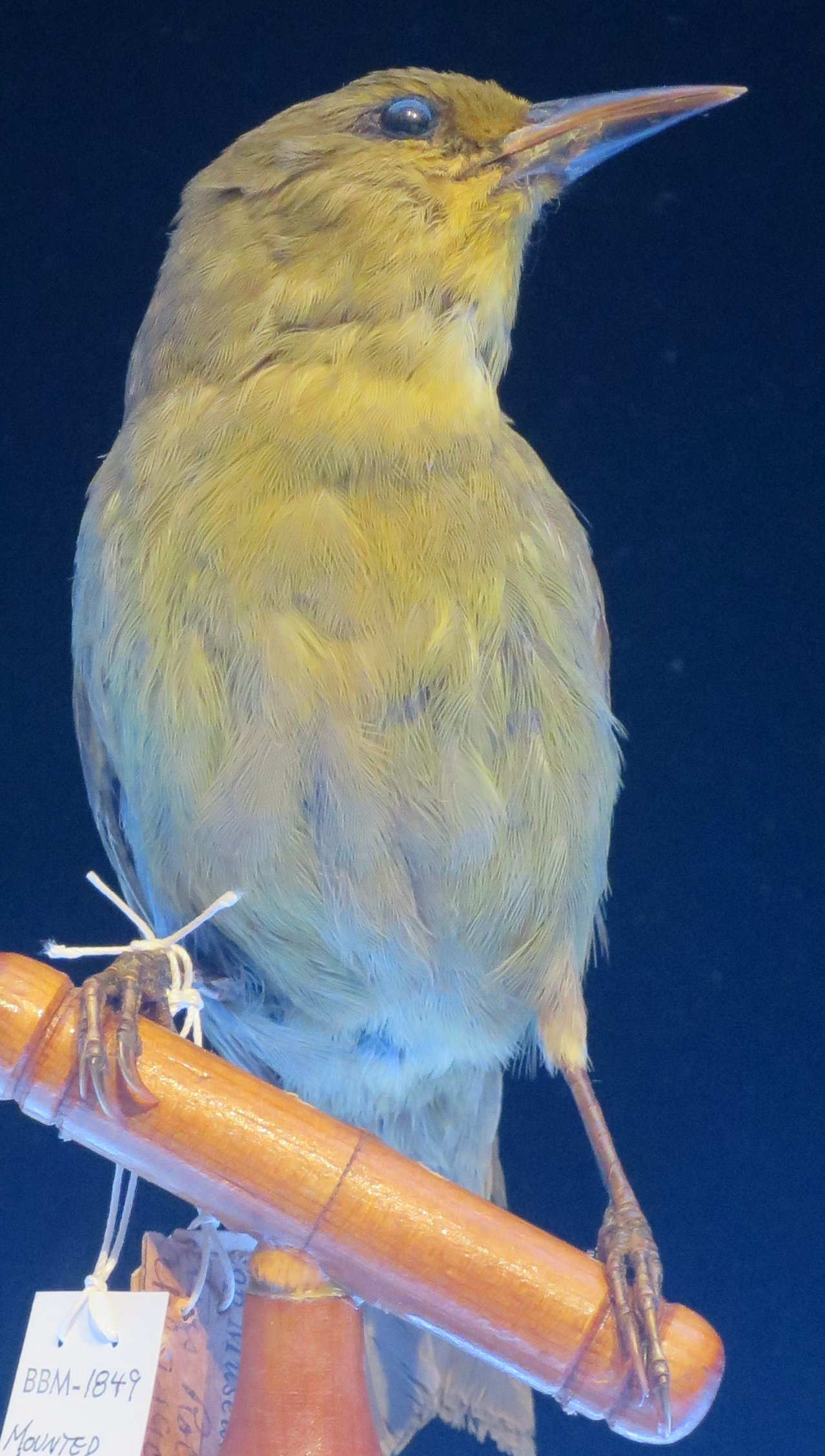 Viridonia sagittirostris (greater 'amakihi), Bishop Museum, Honolulu